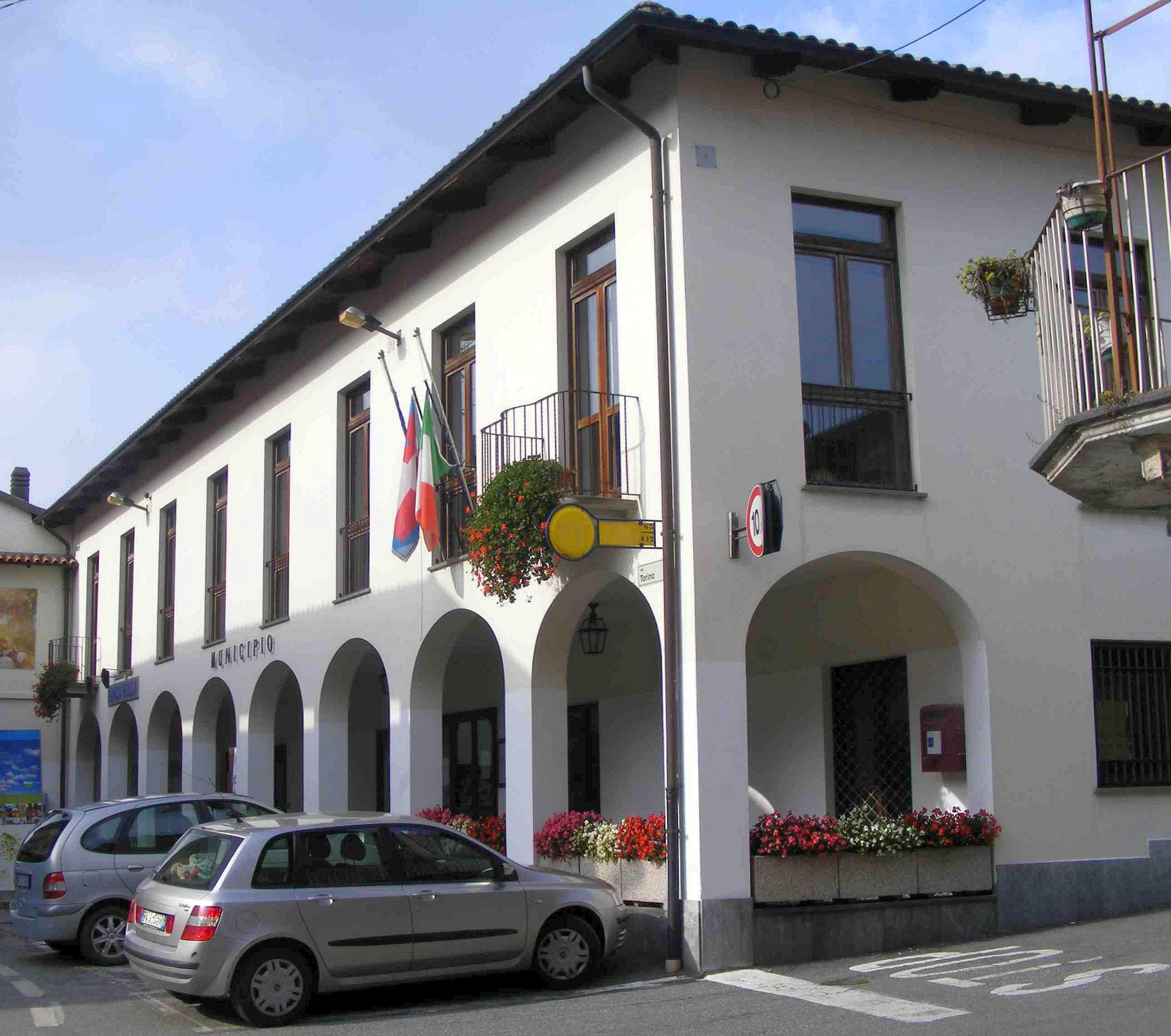 Cossano Canavese (TO, Italy): town hall